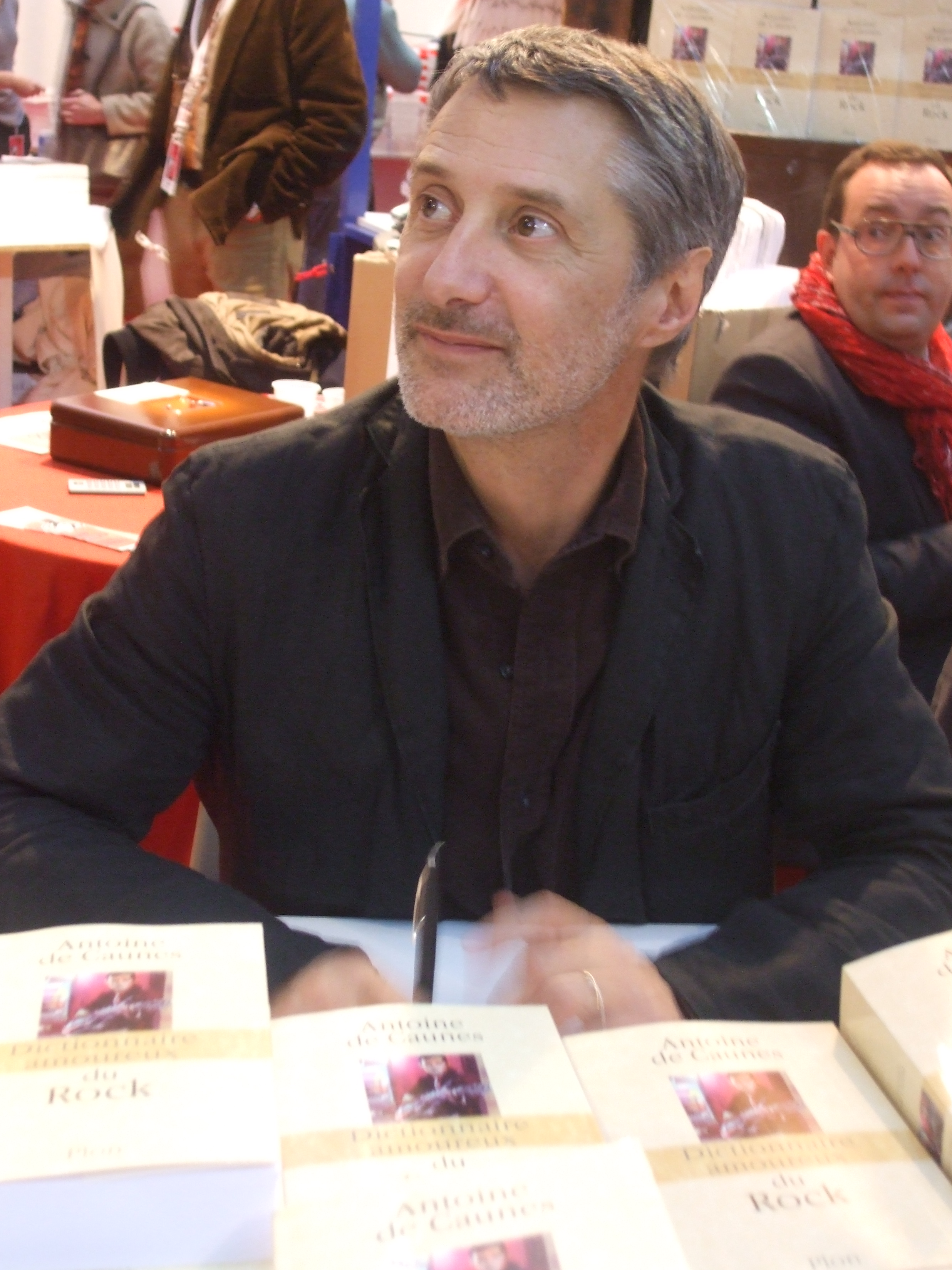 Antoine de Caunes, Brive la Gaillarde book fair, France, 2010 11 05